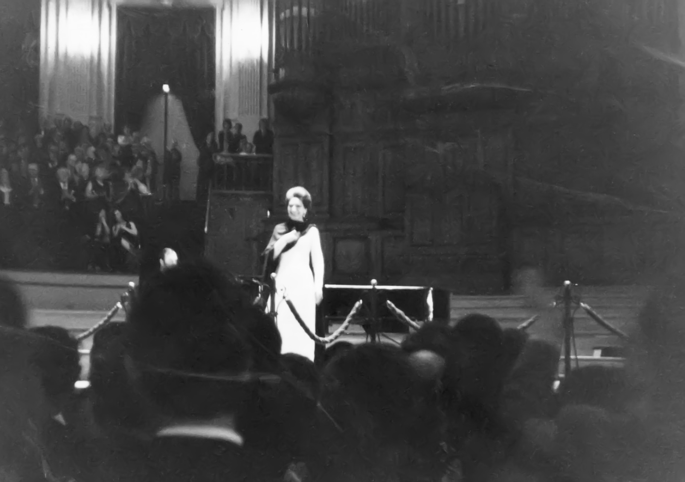 Final tour of Maria Callas in Amsterdam